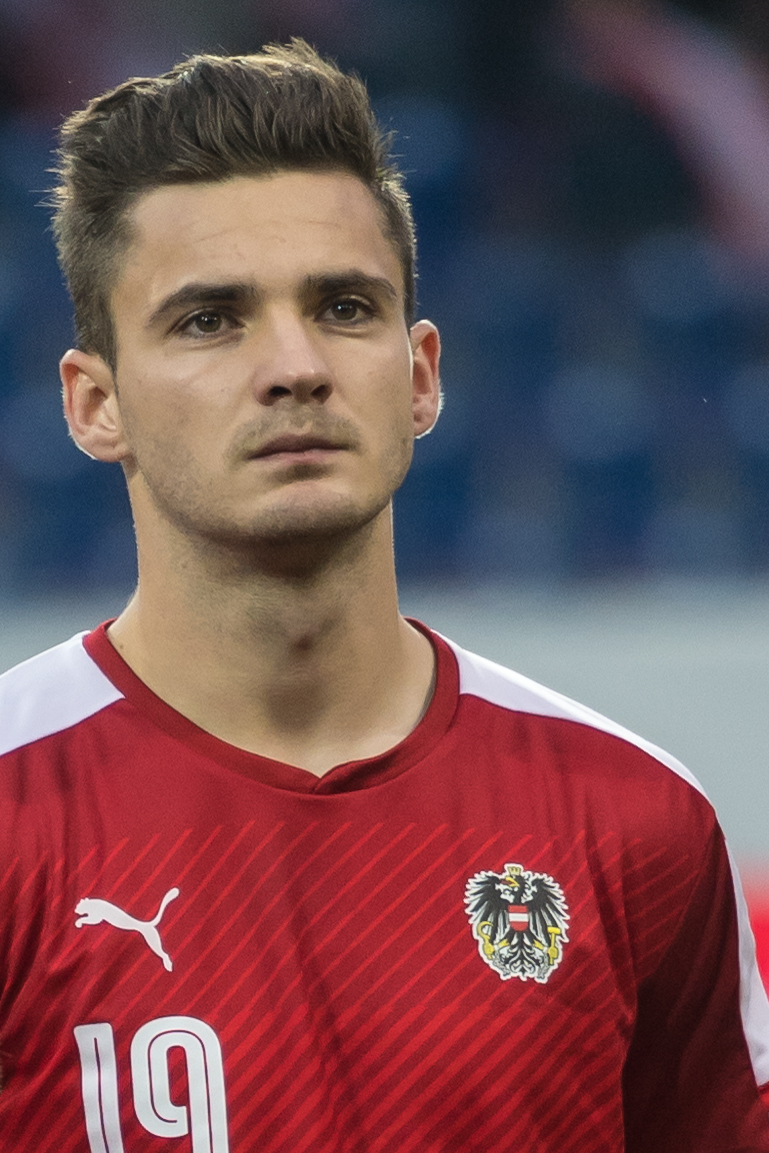 European Under-21 Championship 2017 Qualifying Round, Austria vs Germany, 11/10/2016, St. Polten